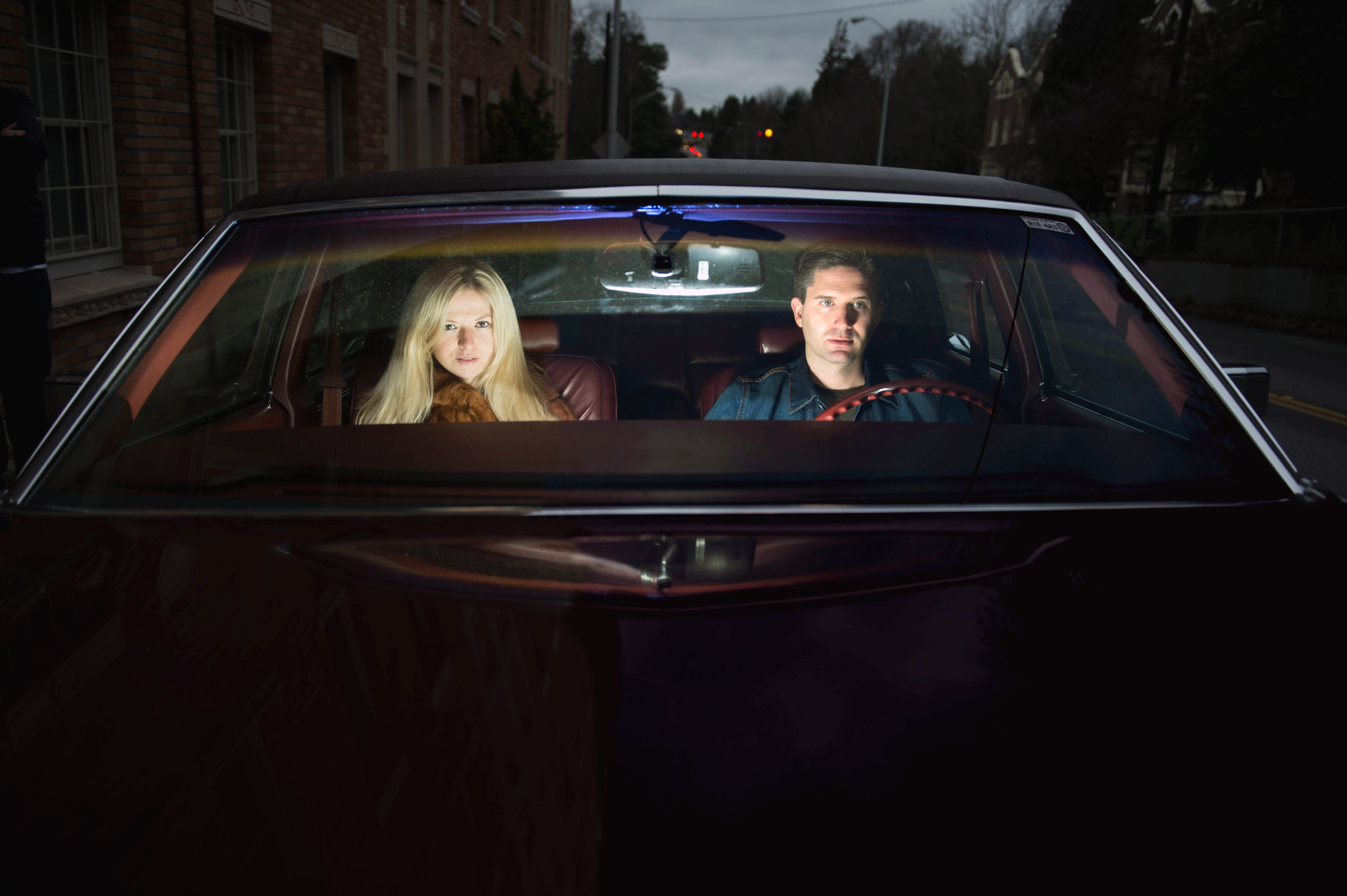 Photo of Still Corners Copyright Chona Kasinger Creative Commons Attribution-ShareAlike 3.0 license + GFDL per OTRS